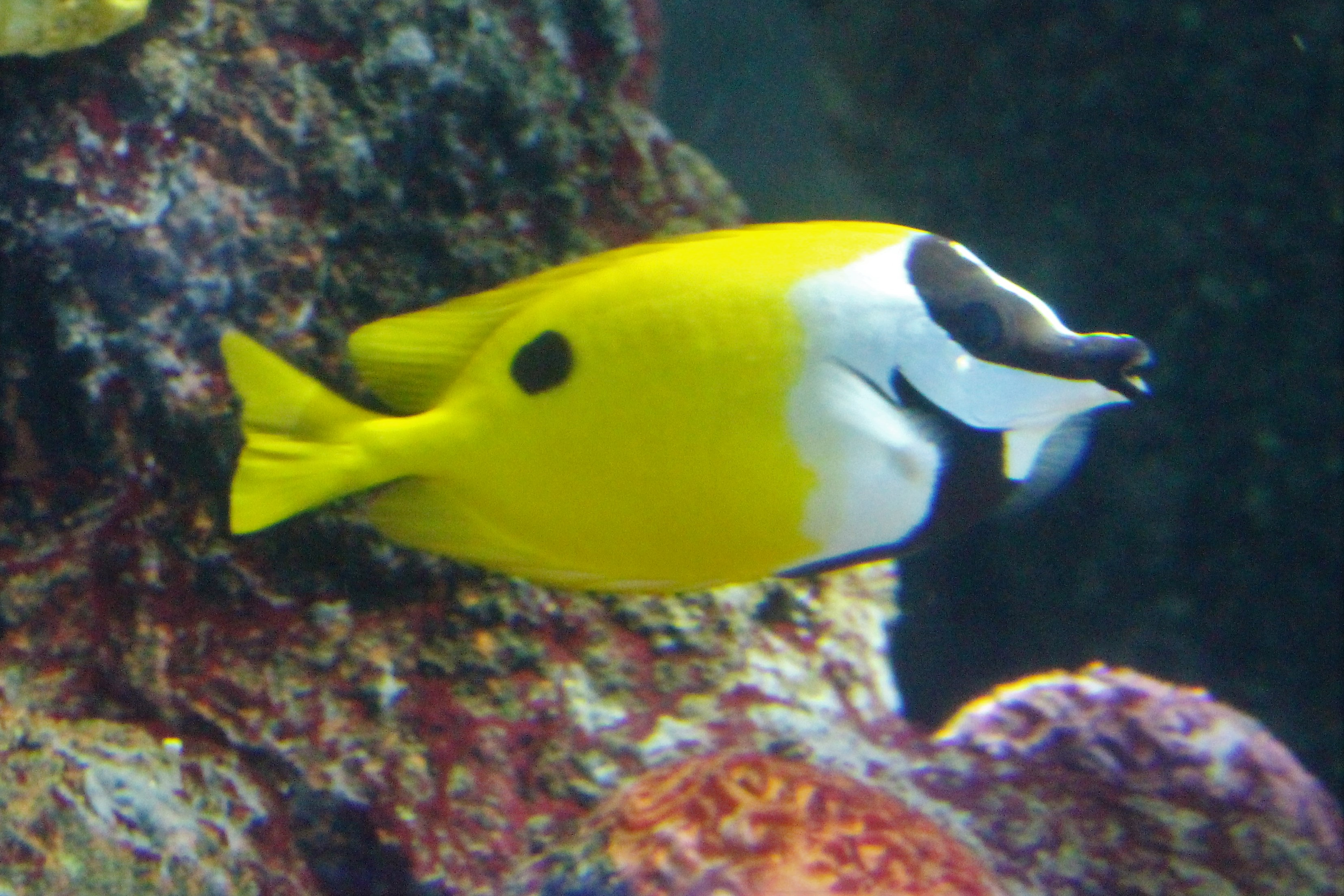 Blotched foxface (Siganus unimaculatus) at the Scarborough SEA LIFE Sanctuary in England.